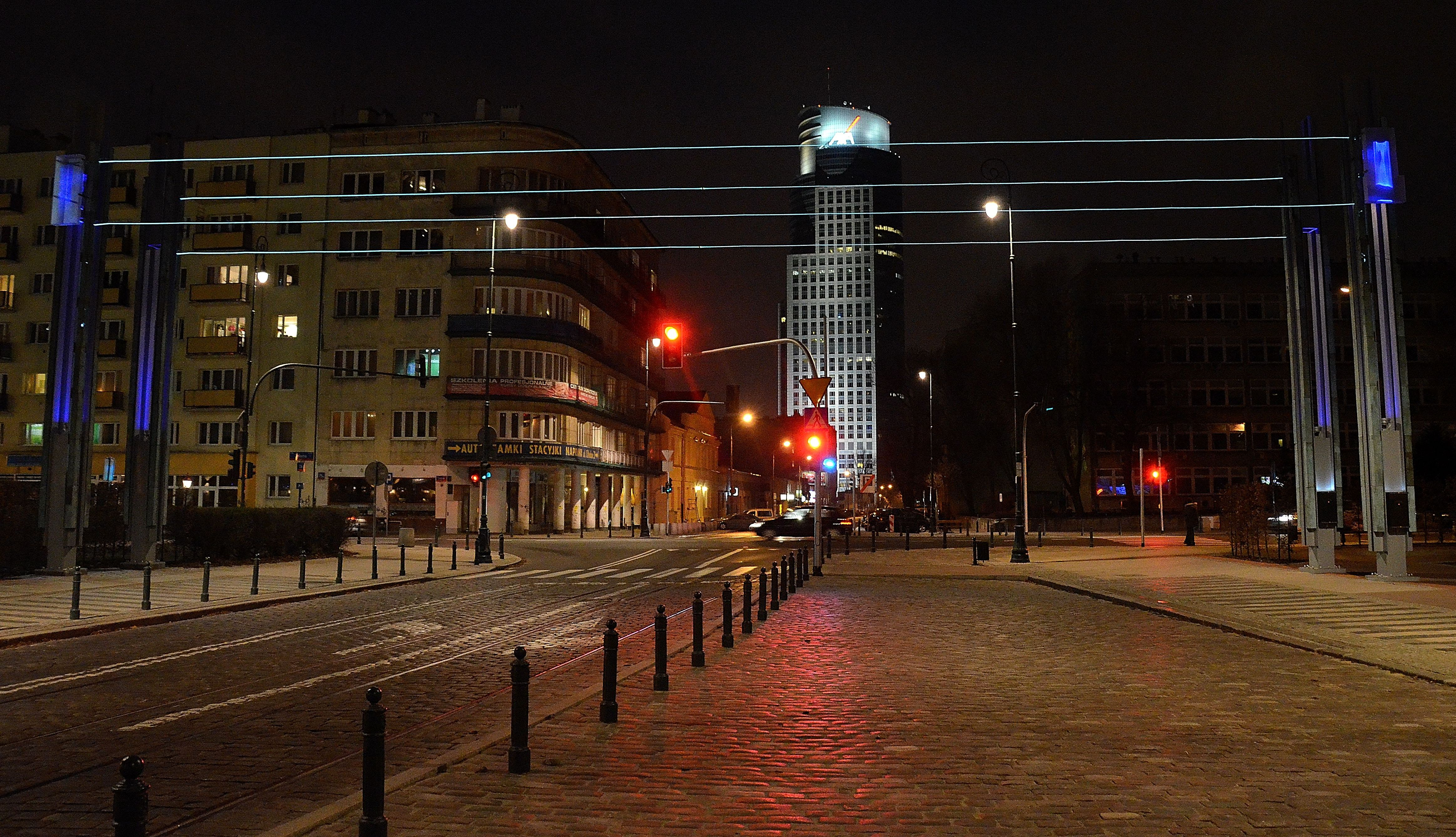 Footbridge of Memory - Warsaw Ghetto Footbridge Monument in Chodna Street